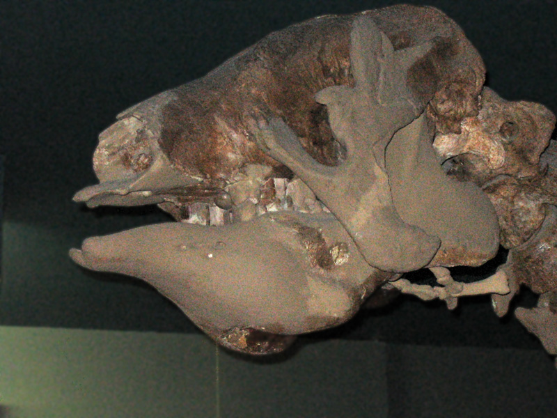 Skull of fossil Eremotherium ground sloth skeleton at the National Museum of Natural History.